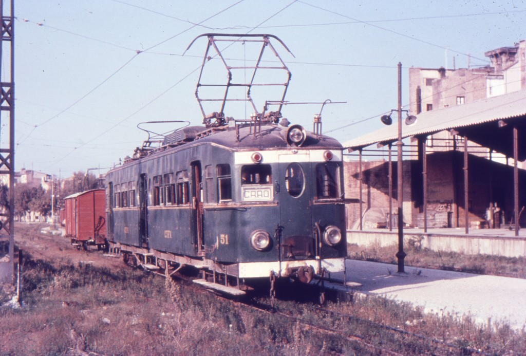 Devis nº 51 (CTFV)